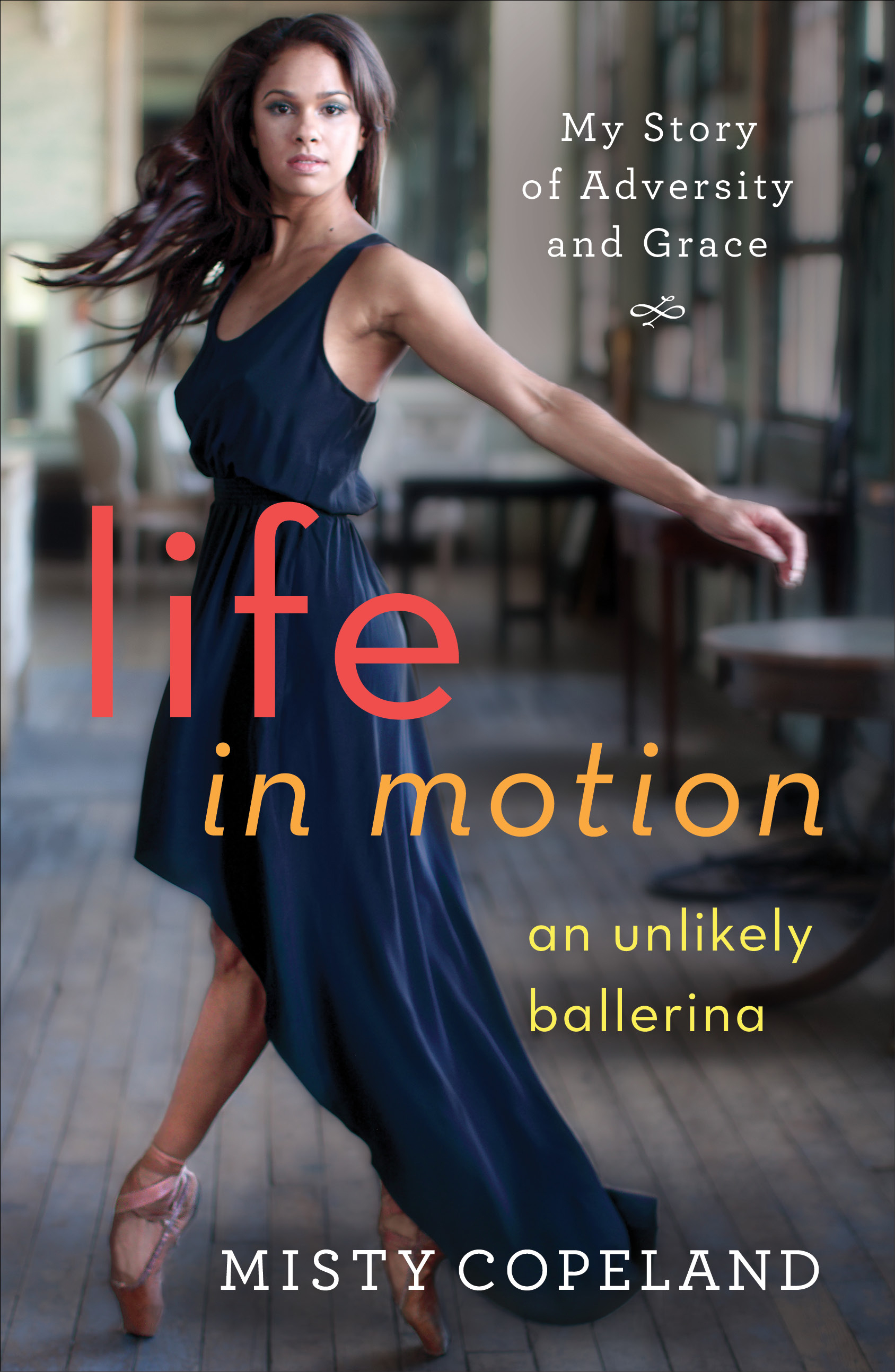 Book Cover for Life In Motion memoir.